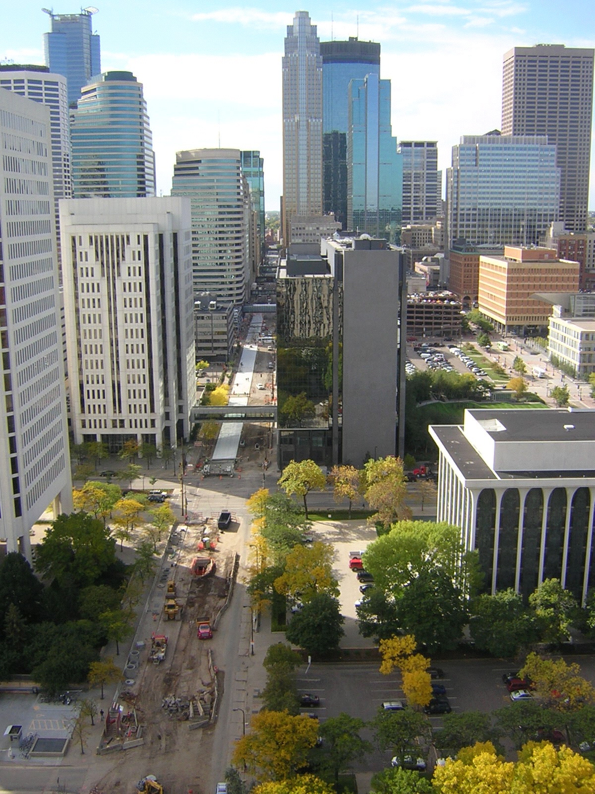 Road construction on Marquette Avenue in downtown Minneapolis, Minnesota, USA